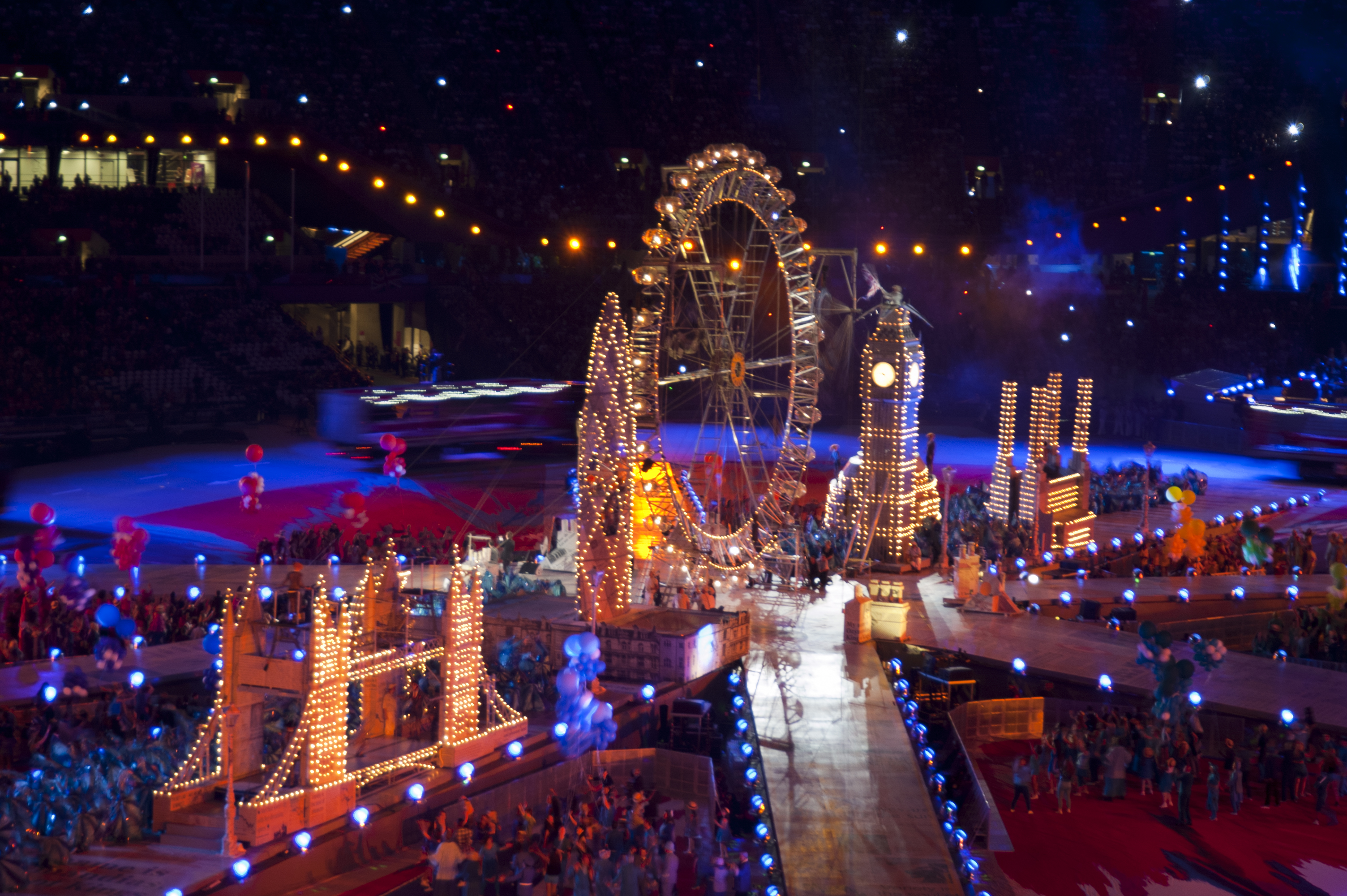 A miniature version of London landmarks at the 2012 Olympic closing ceremony.